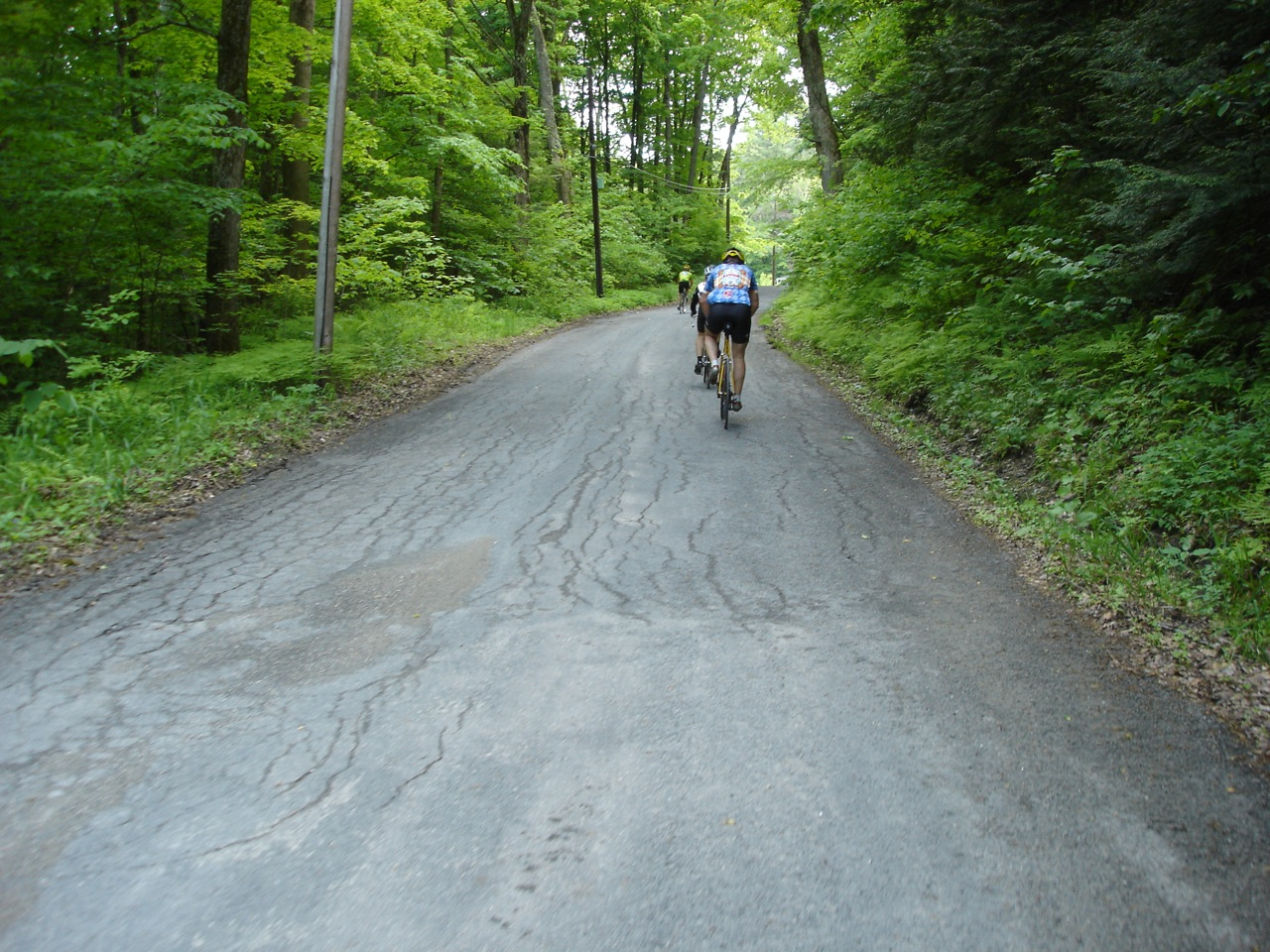 Climb into the north side of the Beartown State Forest